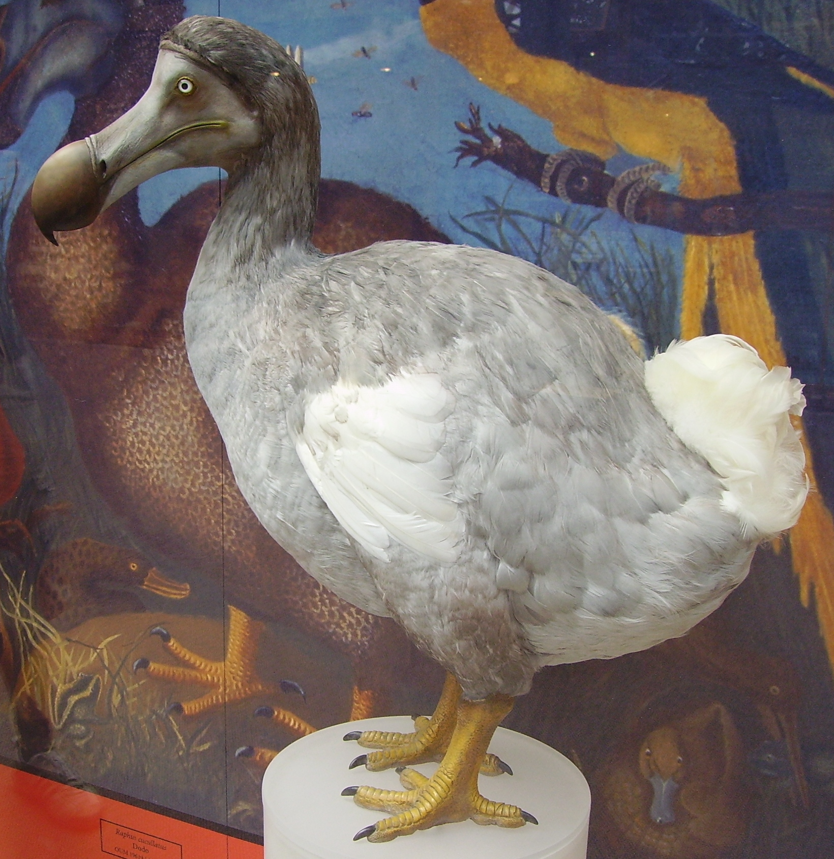 Dodo reconstruction (Raphus cucullatus) reflecting new research at Oxford University Museum of Natural History